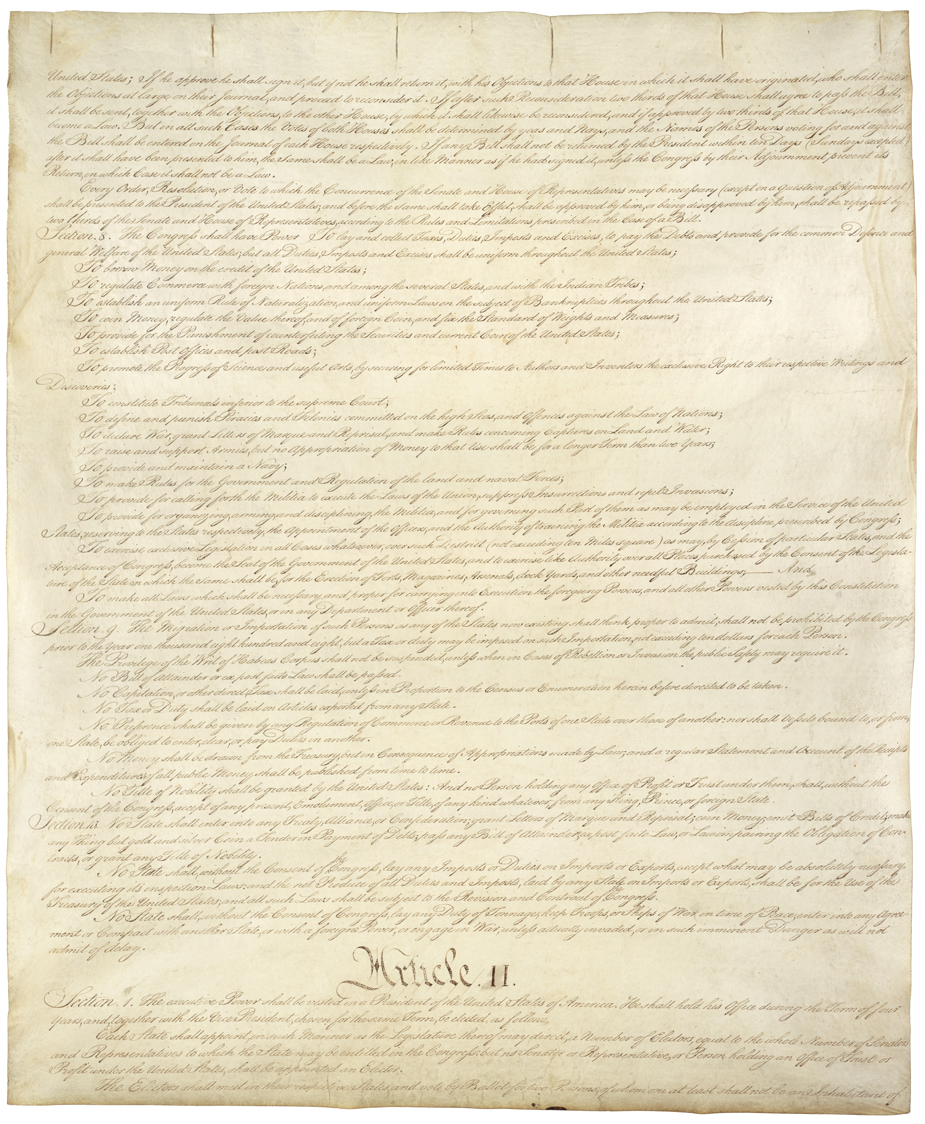 Second page of Constitution of the United States